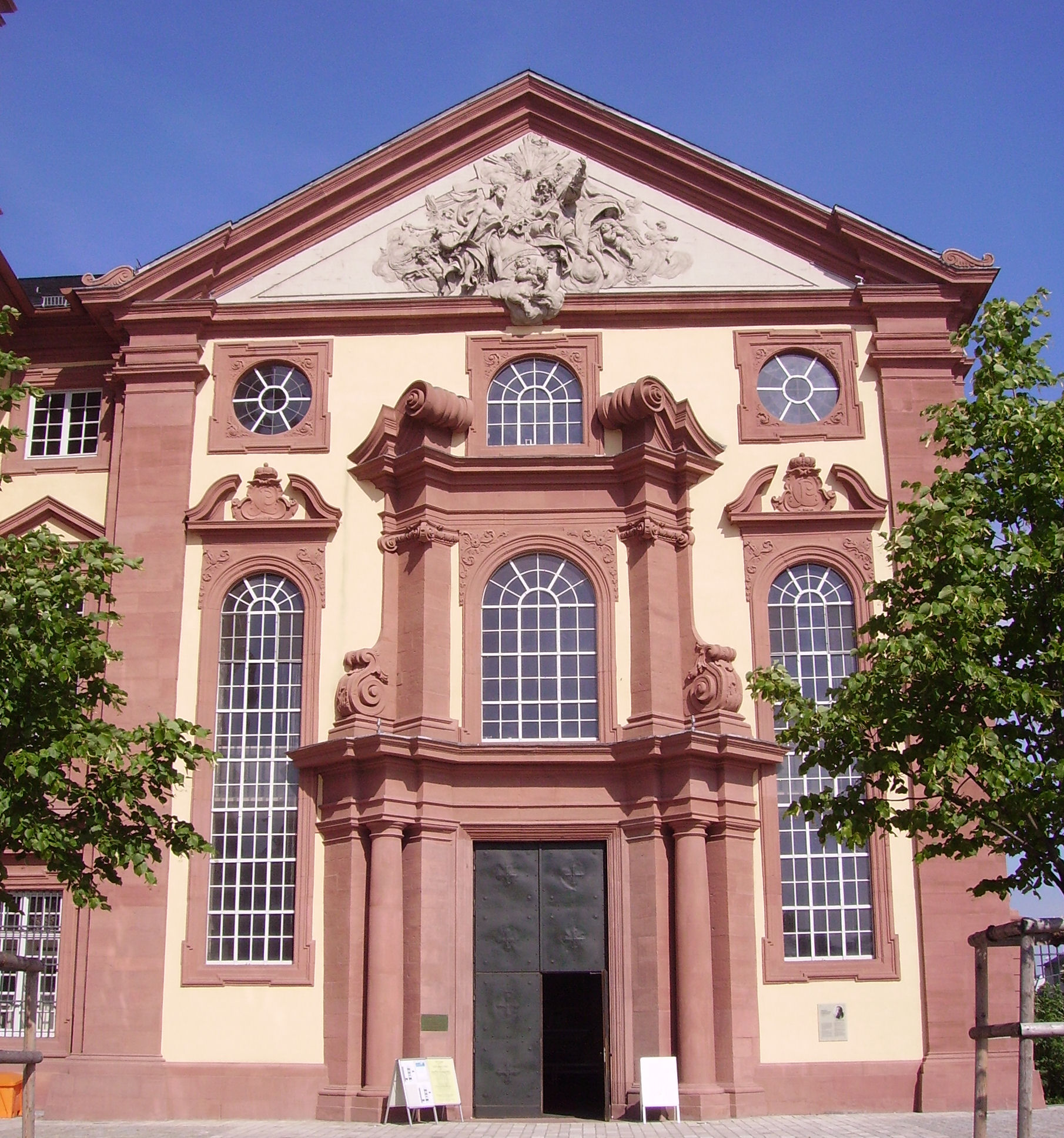 Mannheim Castle, Germany